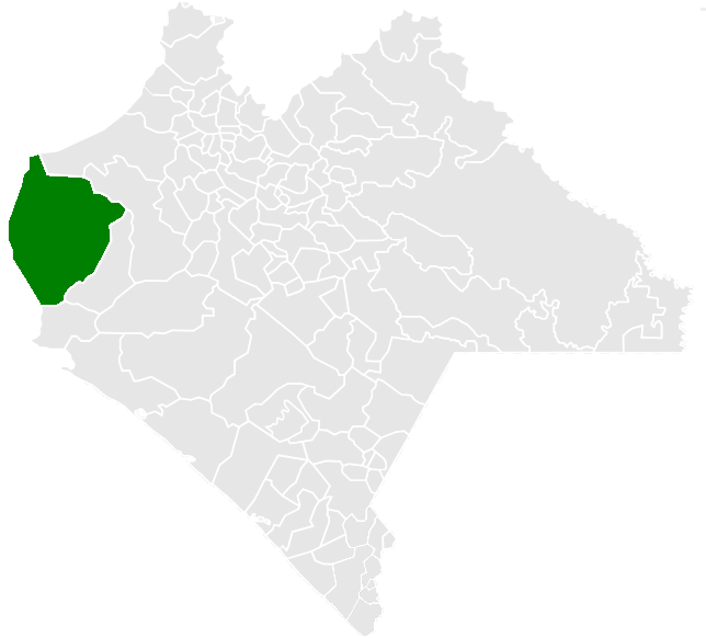 Map of the Municipalty of Cintalapa in the State of Chiapas, México.